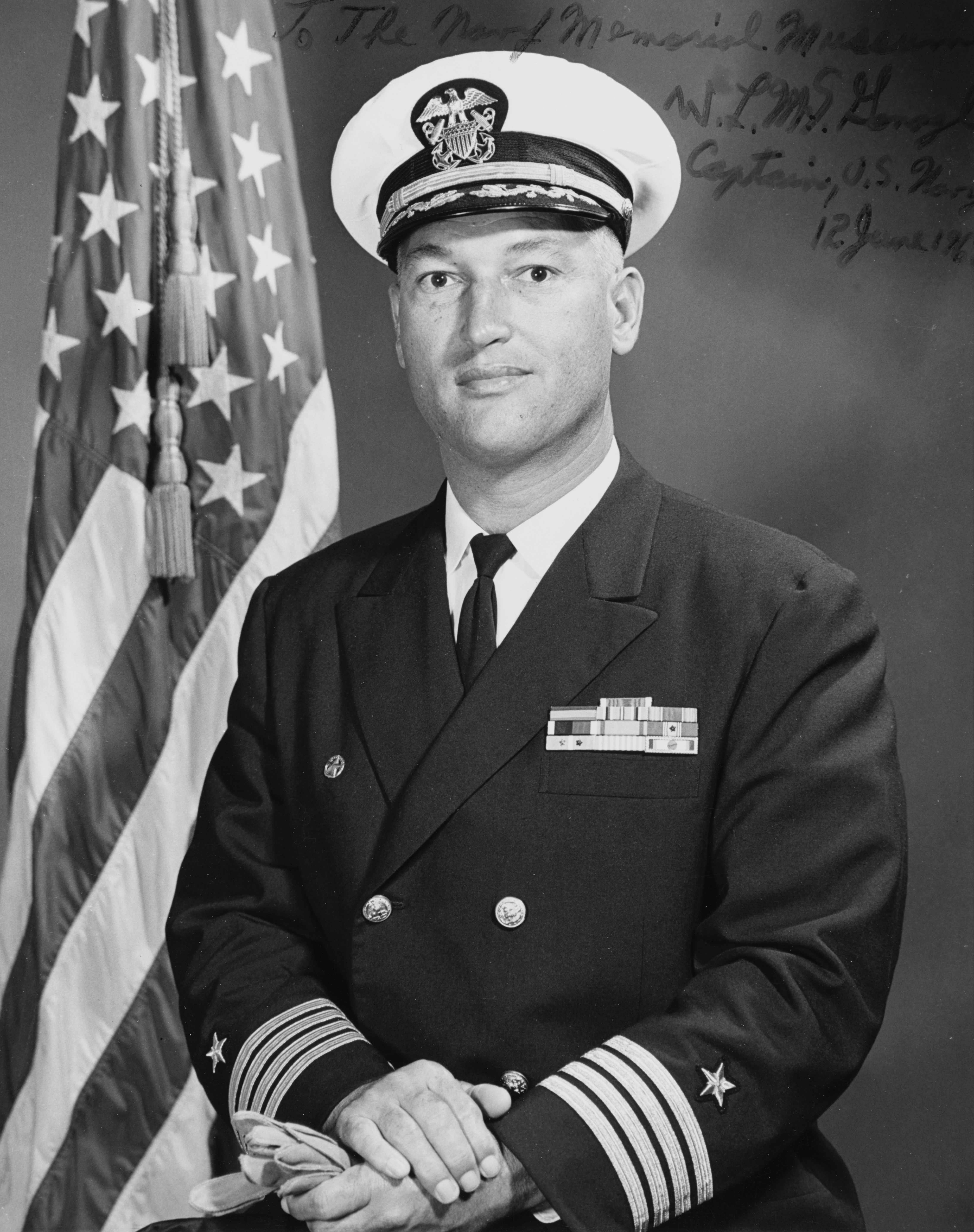 U.S. Navy Photograph from